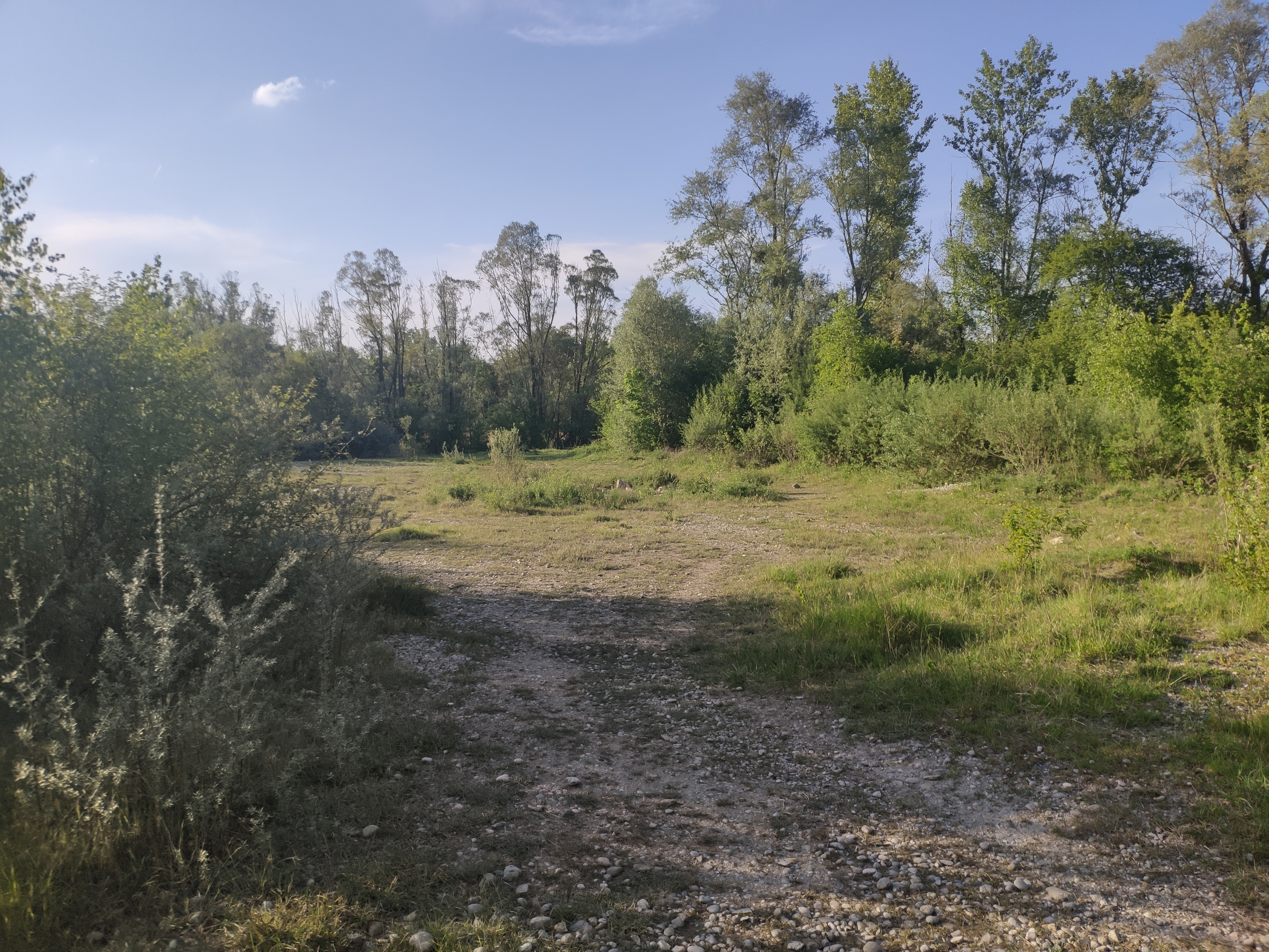 Allacher Lohe München